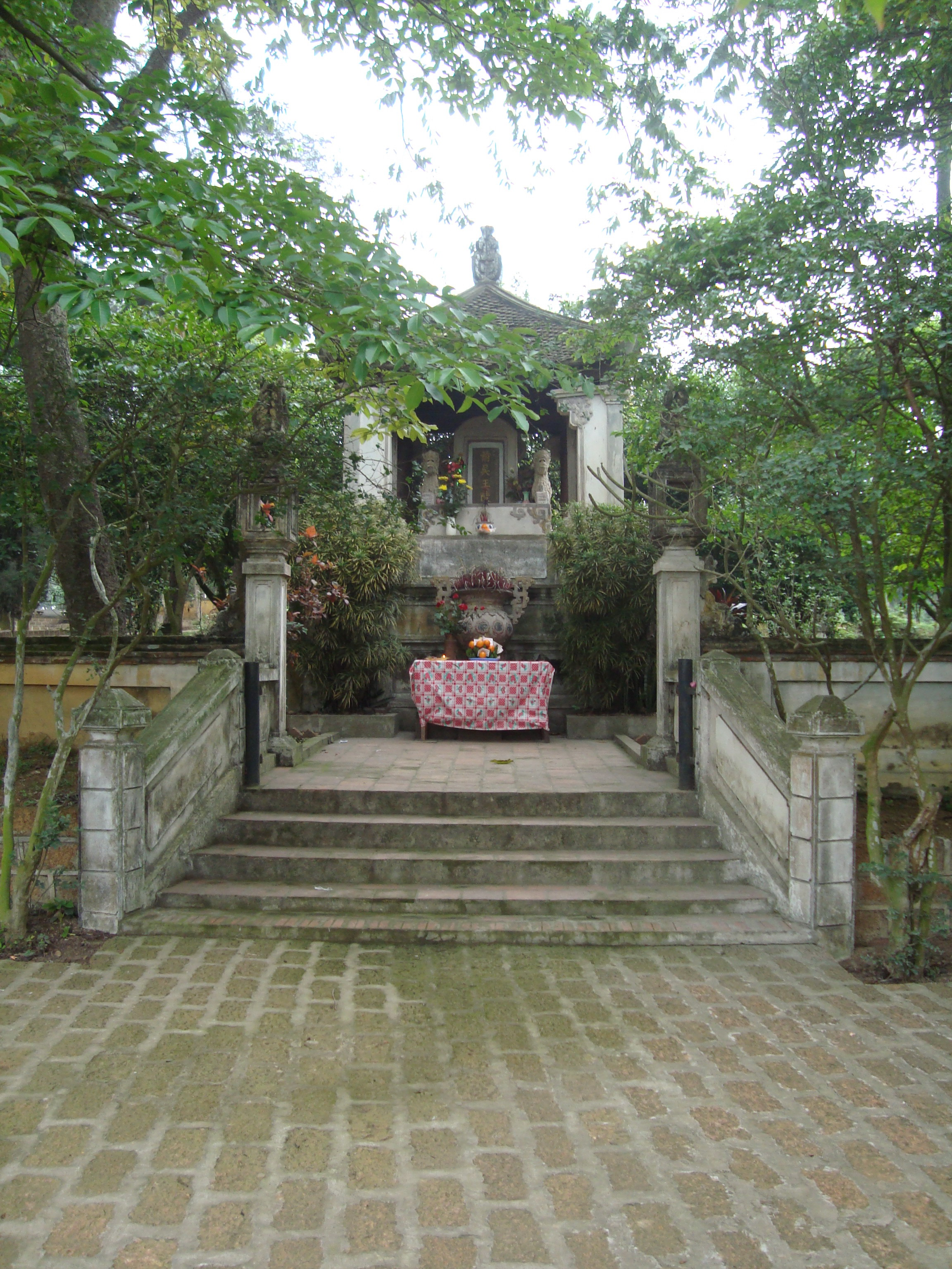 Mausoleum of the King Ngo Quyen in Duong Lam commune, Son Tay town, Ha Noi